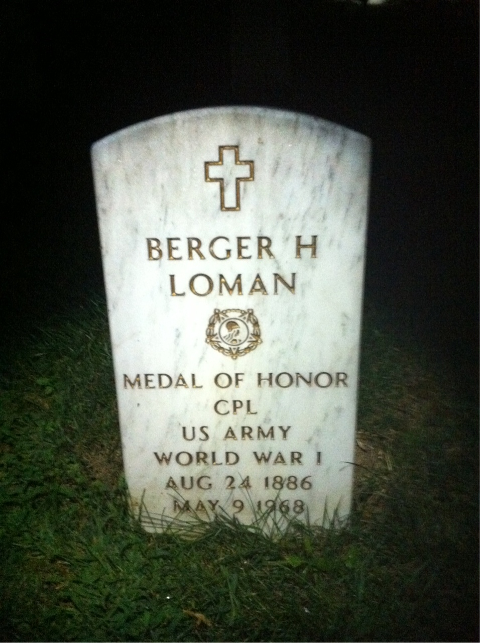 Grave of Berger Loman at Arlington National Cemetery